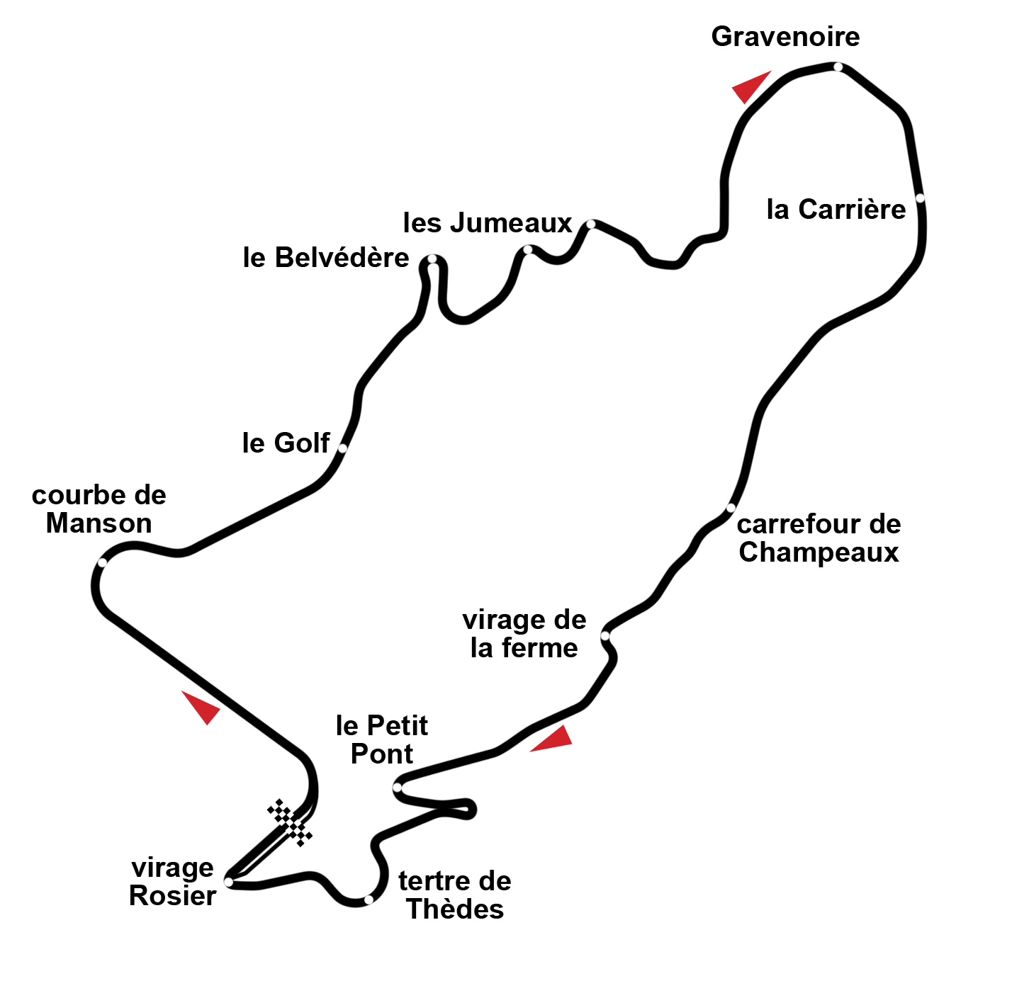 original track, Charade Clermont-Ferrand (France)